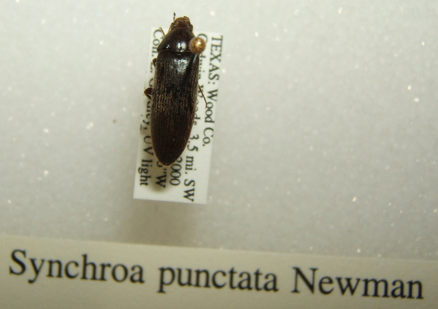 Synchroa punctata adult taken by Shawn Hanrahan at the Texas A&M University Insect Collection in College Station, Texas.